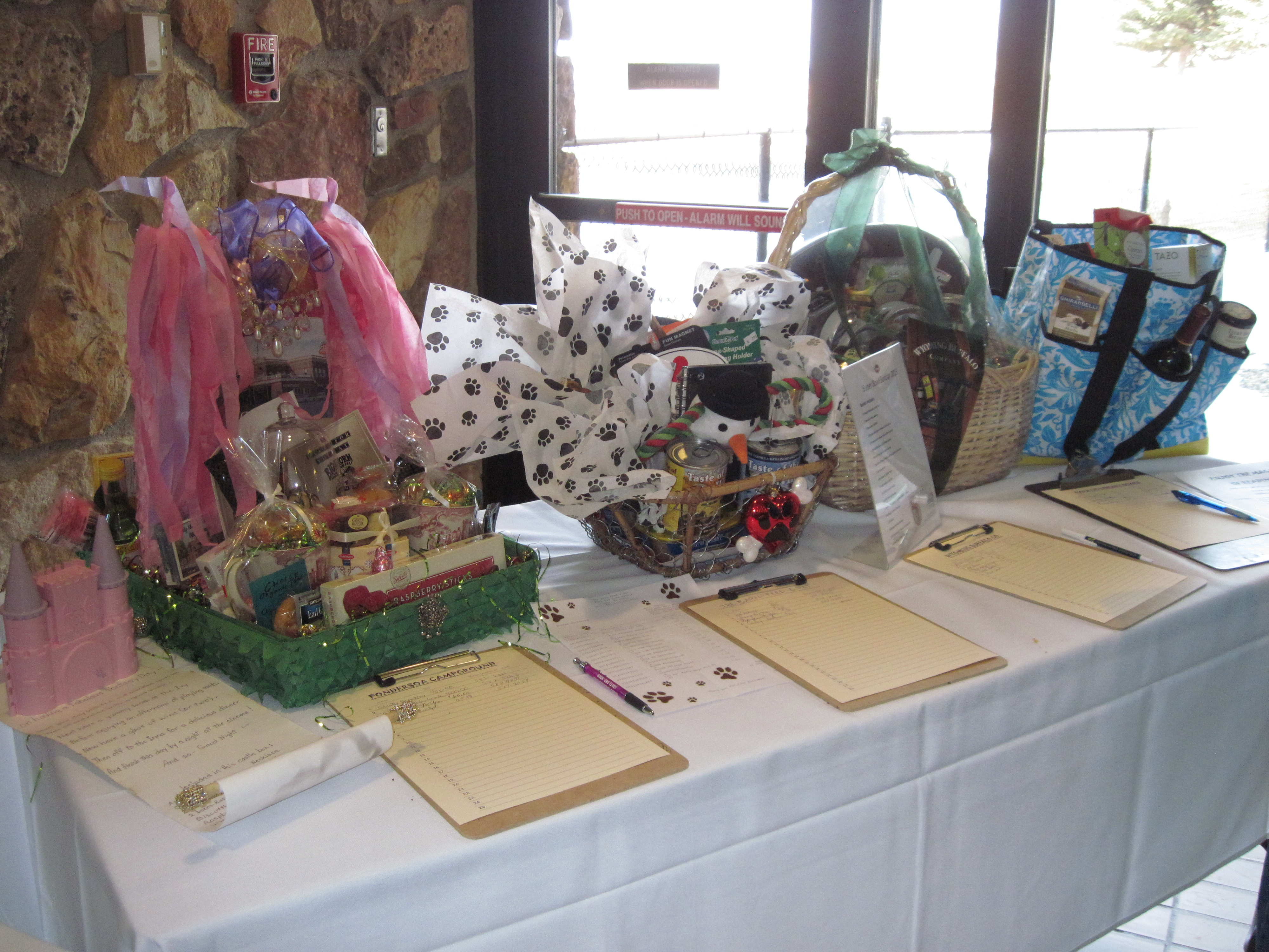 Some of the box social entries at WG4